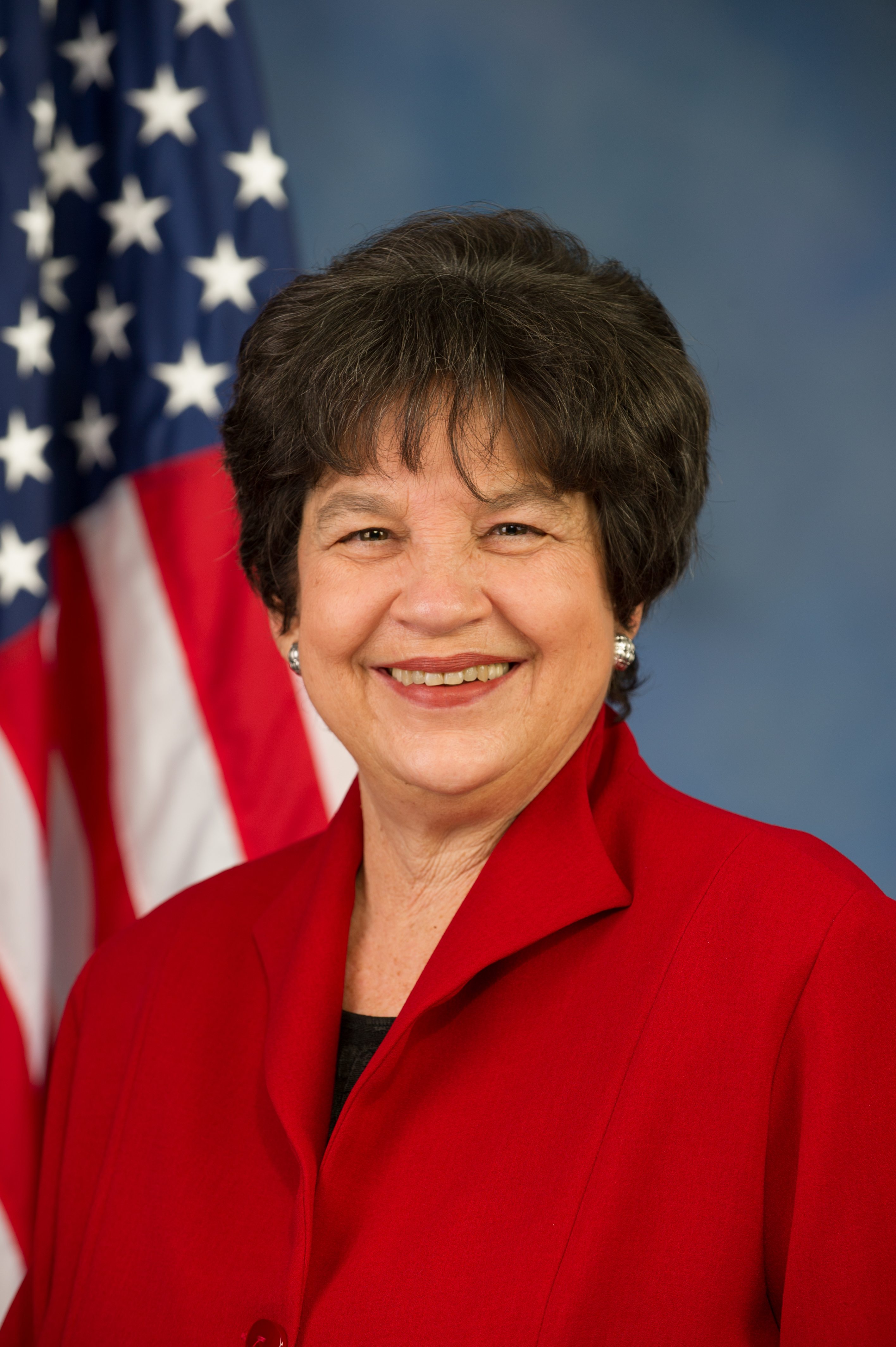 US Congresswoman Lois Frankel c. 2013